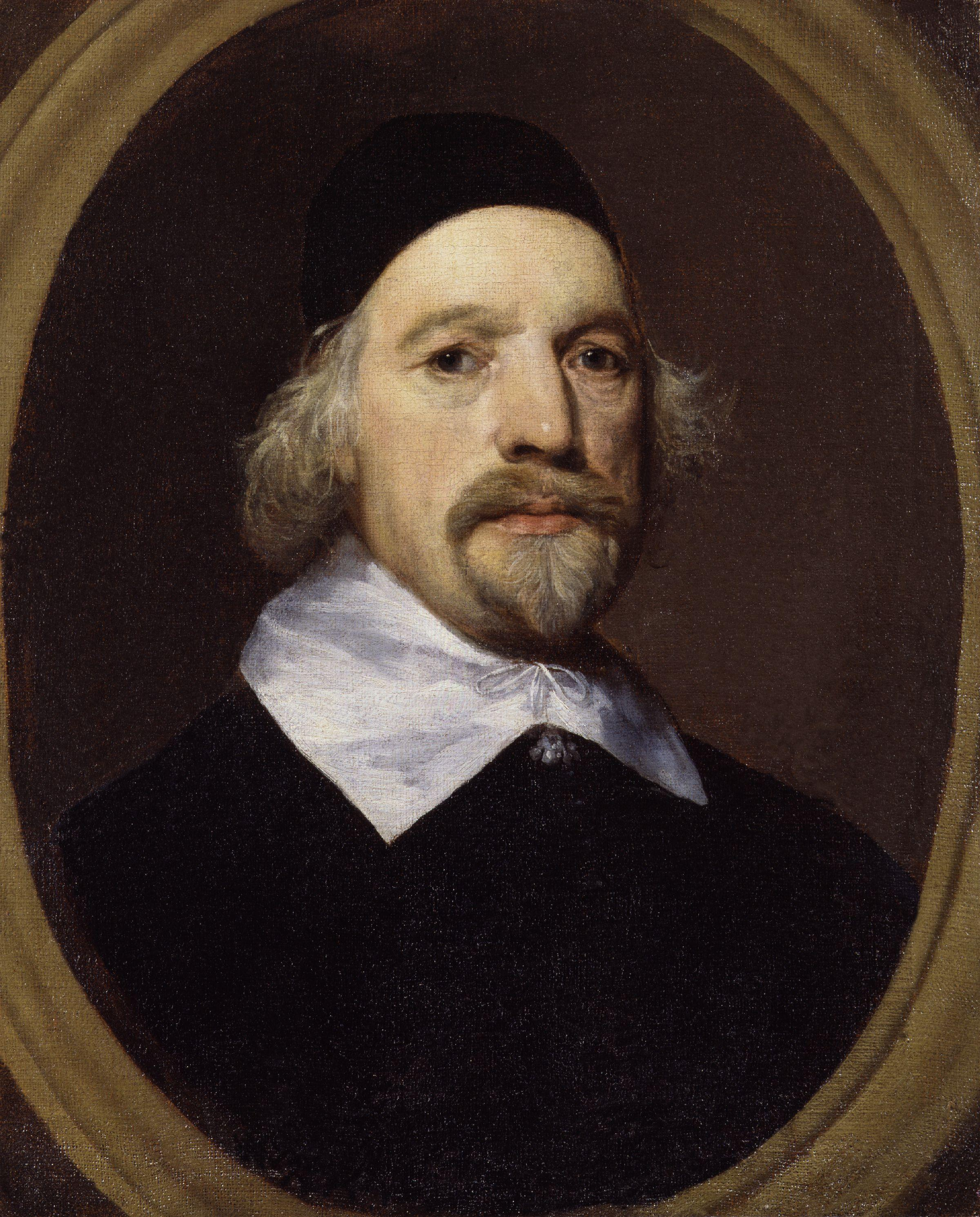 Sir Edward Nicholas, by William Dobson (died 1646). All images in this batch have been confirmed as author died before 1939 according to the official death date listed by the NPG.